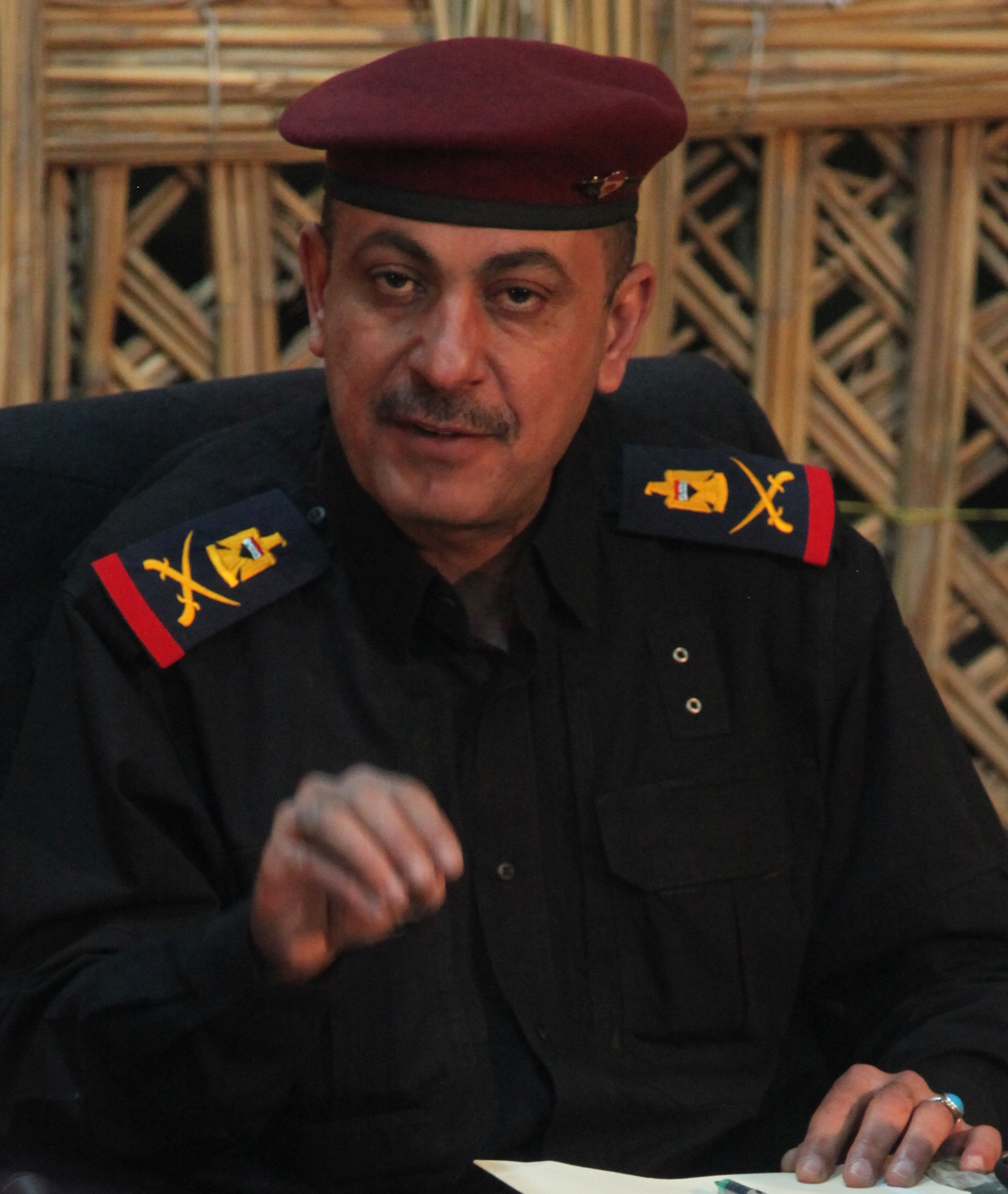 Cropped photo of Maj. Gen. Sabah al-Fatlawi, chief of police for Dhi Qar province, answering a question during a briefing and press conference on Contingency Operating Base Adder, Iraq, Jan. 5, 2010. The briefing and press conference were organized in order to give the media an idea of how security will be handled during elections.